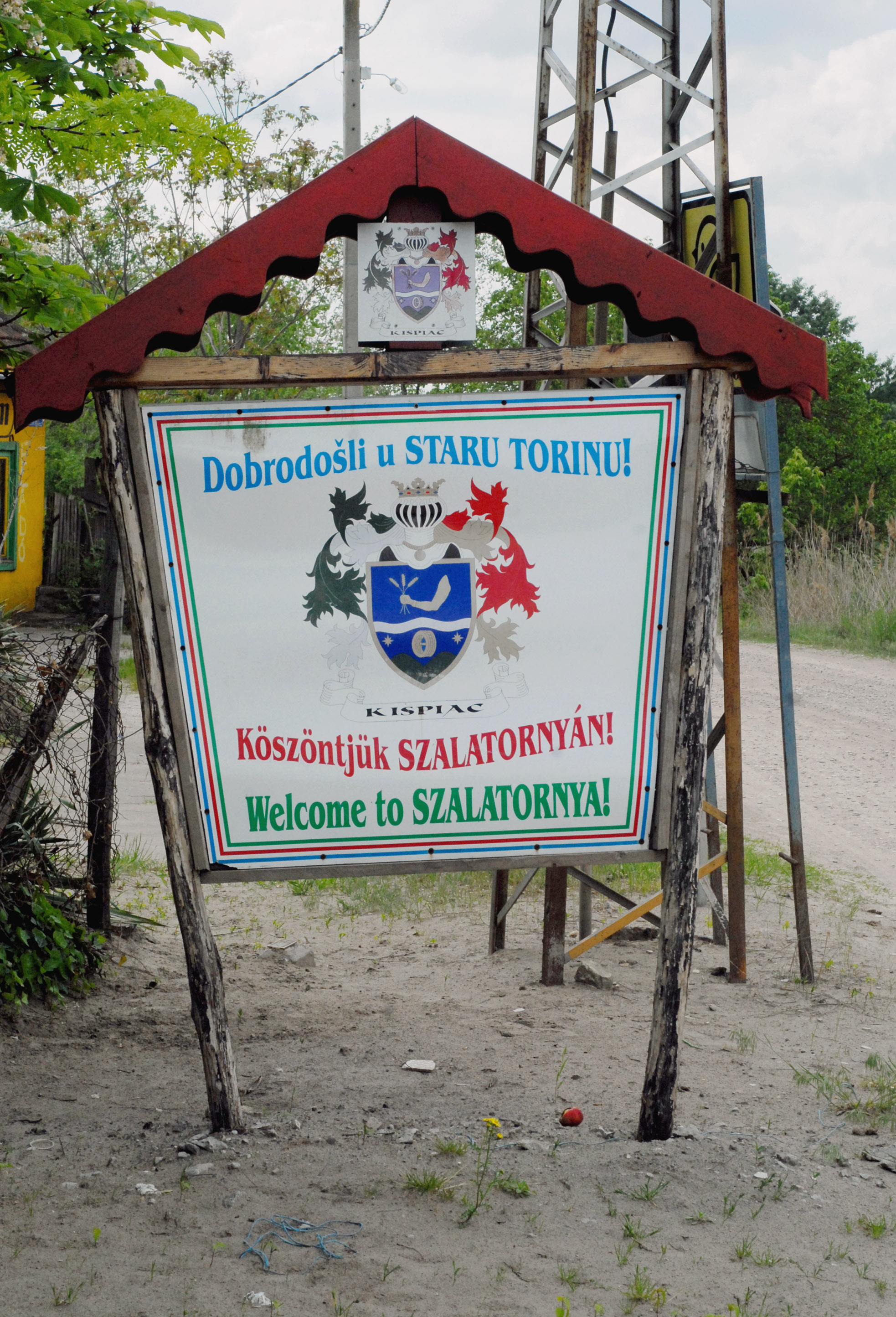 Welcome-board at the enthrance of hamlet Stara Torina in Serbia. The text "Welcome to Szalatornya" is written it three languages, Serbian, English and Hungarian (the village is mostly Hungarian-populated).